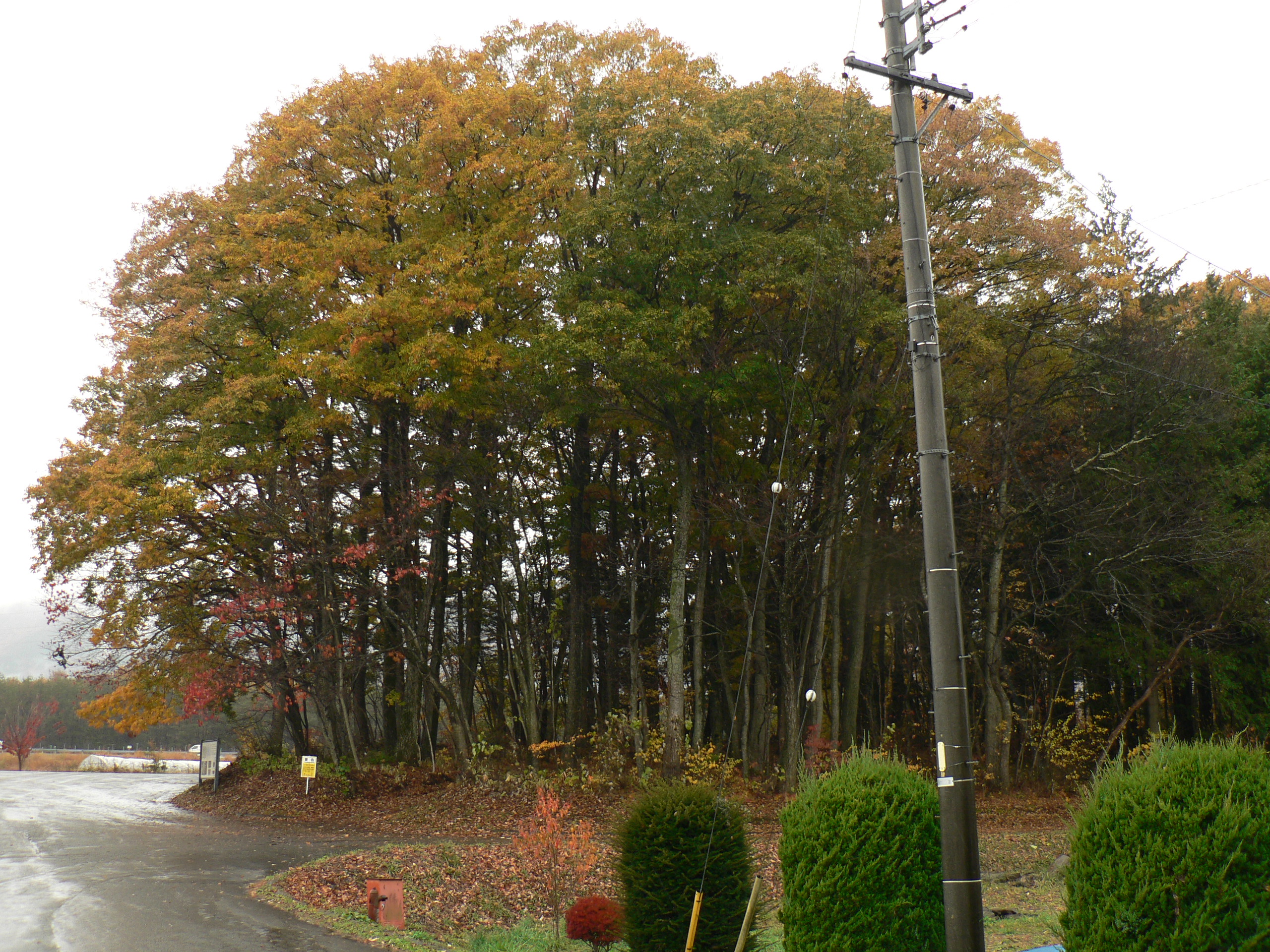 Nagano-ken, Suwa-gun, Hara-mura, Akyū Ruins